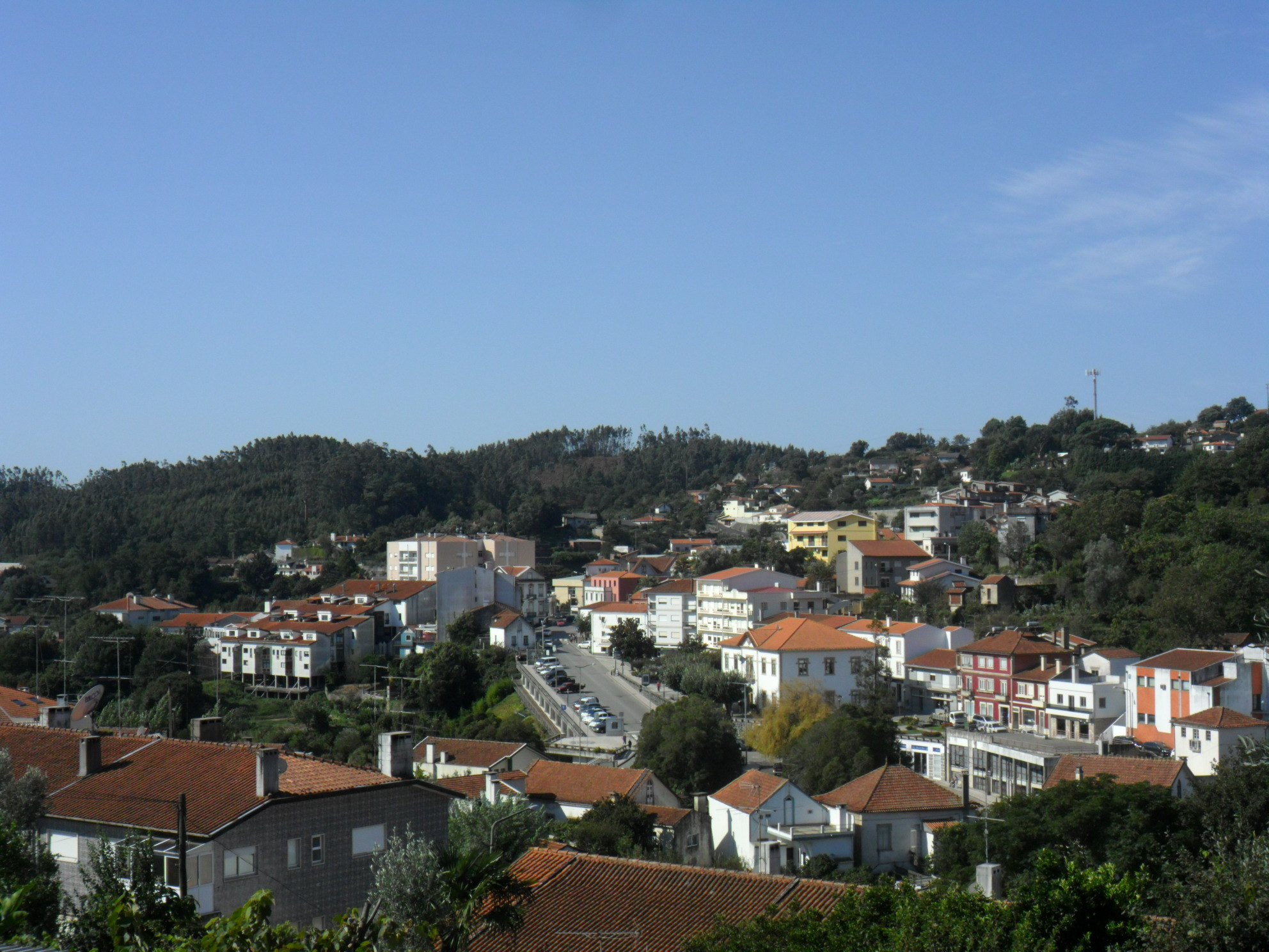 This file was uploaded for Wiki Loves Monuments in Portugal with the unique identifier 97028160.